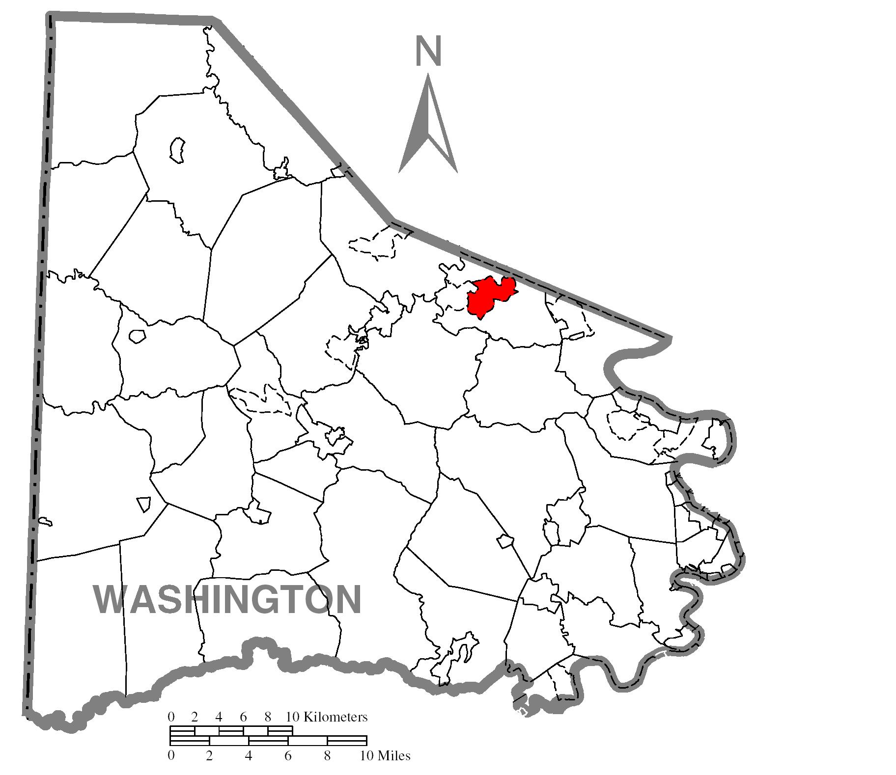 Map of Washington County higlighting McMurray.